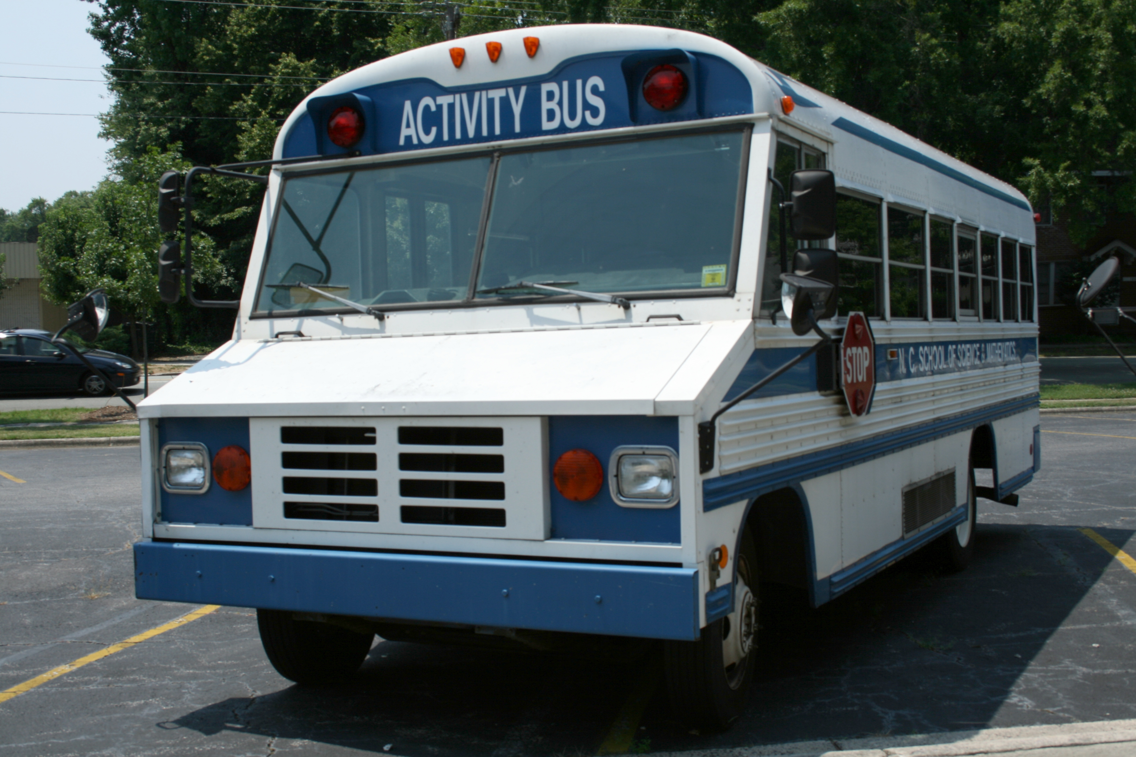 A Blue Bird Mini Bird Type B school bus, operated by the North Carolina School of Science and Mathematics (NCSSM) as an activity bus, parked in the school's parking lot.